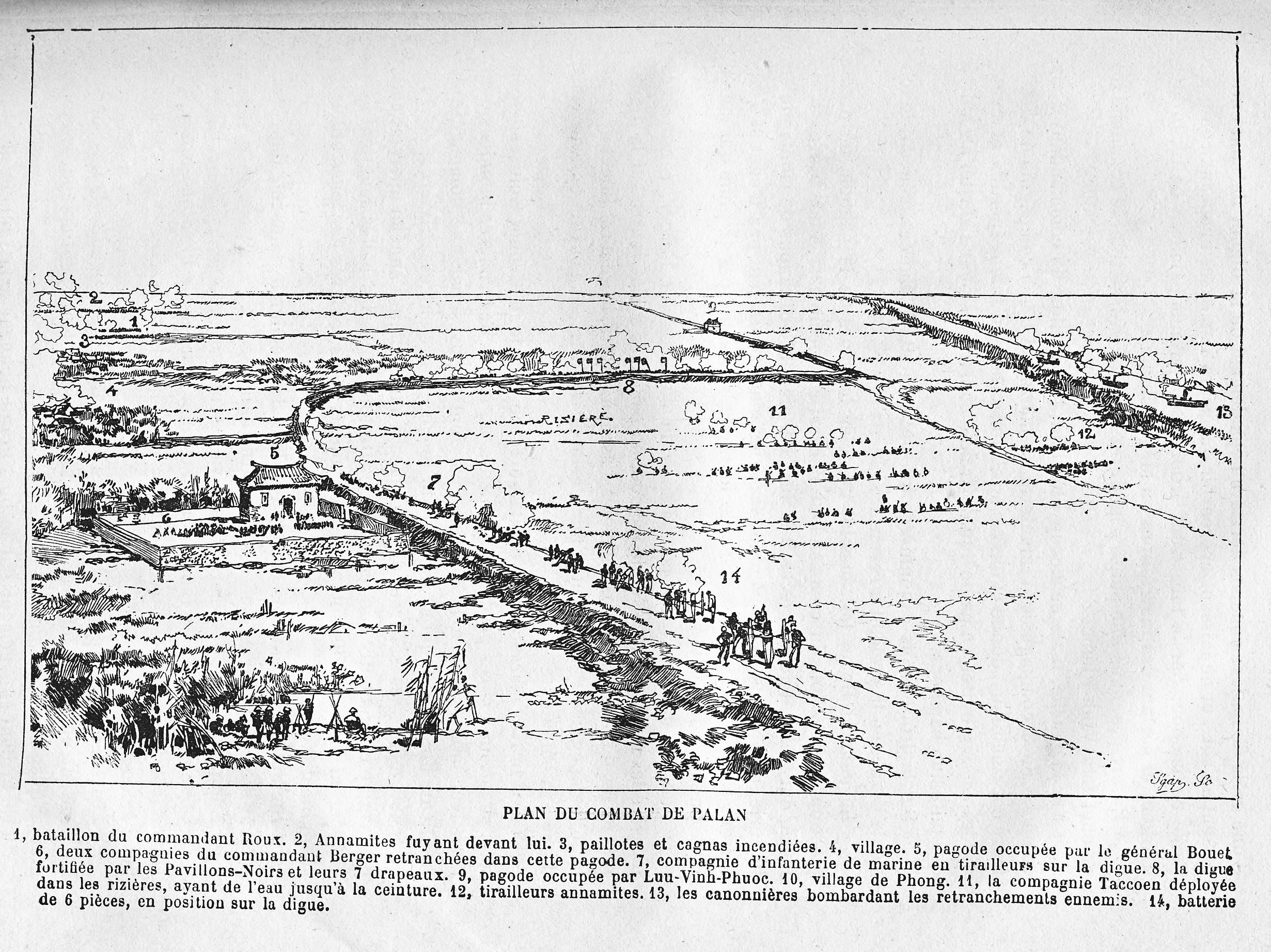 A panoramic view of the Battle of Palan, 1 September 1883